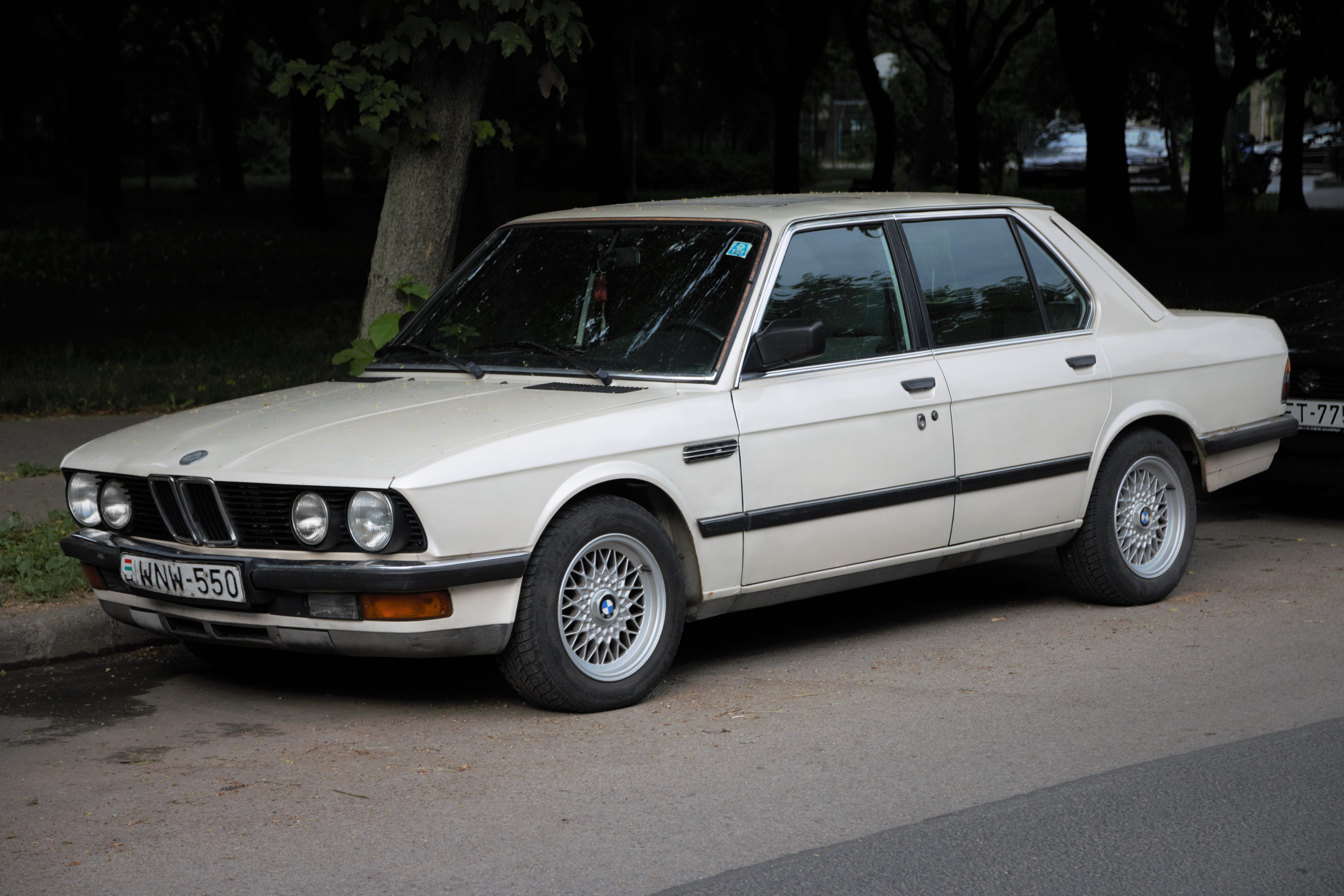 BMW E28 524td; original yellow colour of fog lights and high beams altered using image manipulating software to match the German spec E28.